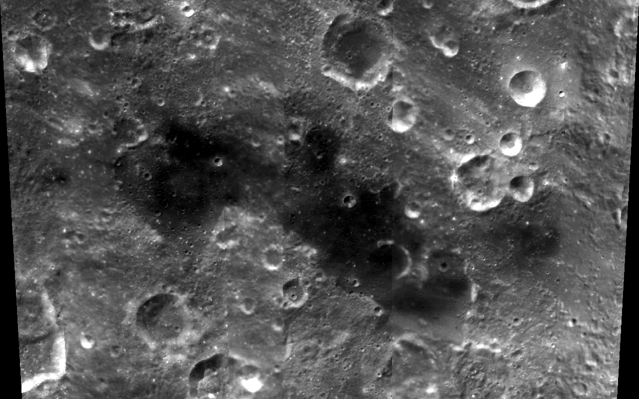 Lacus Timoris (image by Clementine probe)